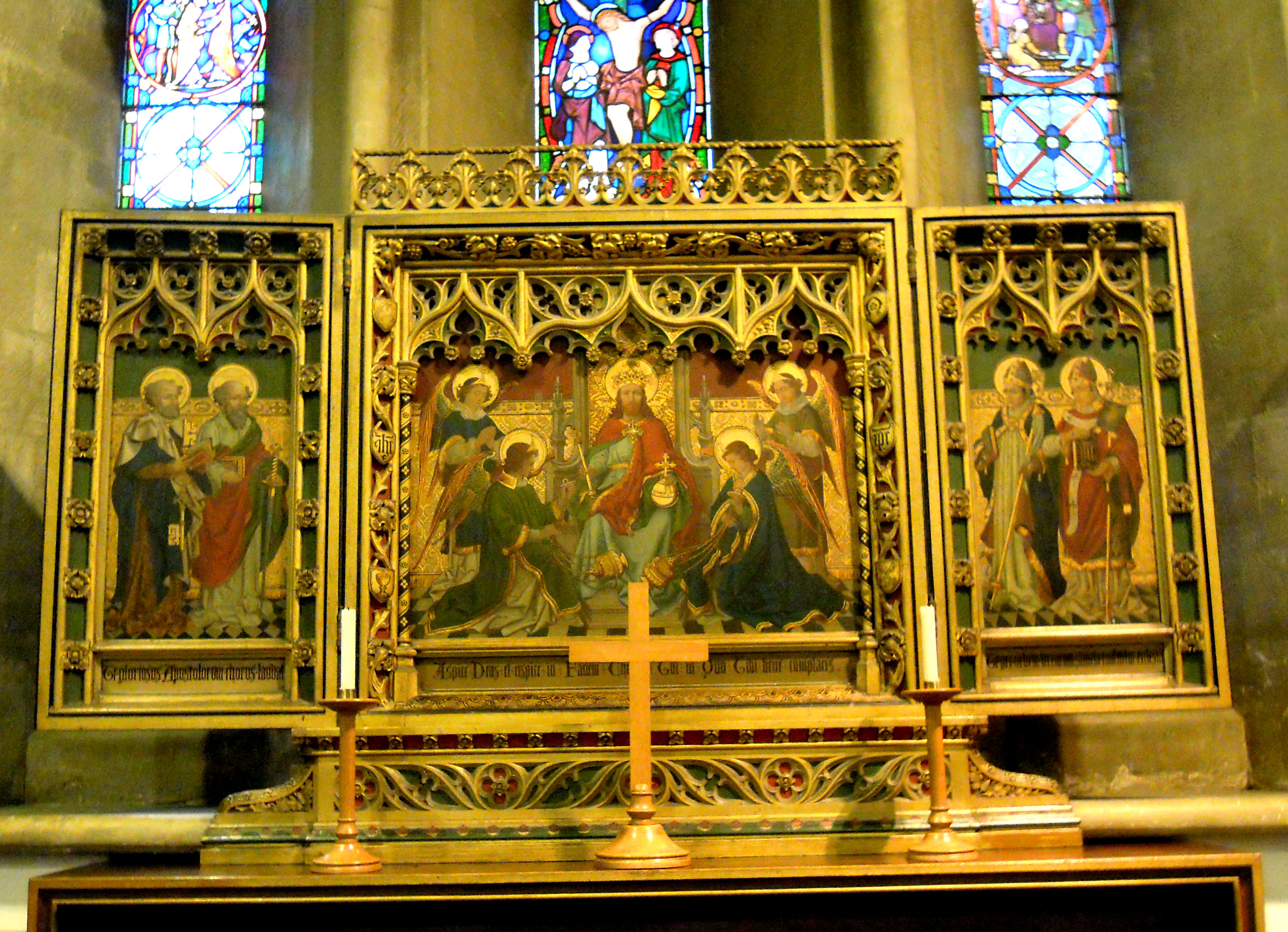 The triptych by Charles Edgar Buckeridge in the Church of St Katharine of Alexandria at Ickleford in Hertfordshire